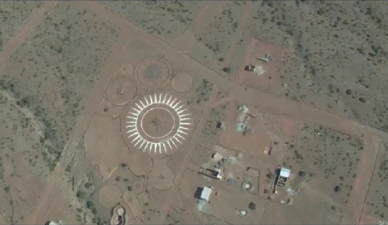 UFO landing strip in Cachi, Argentina